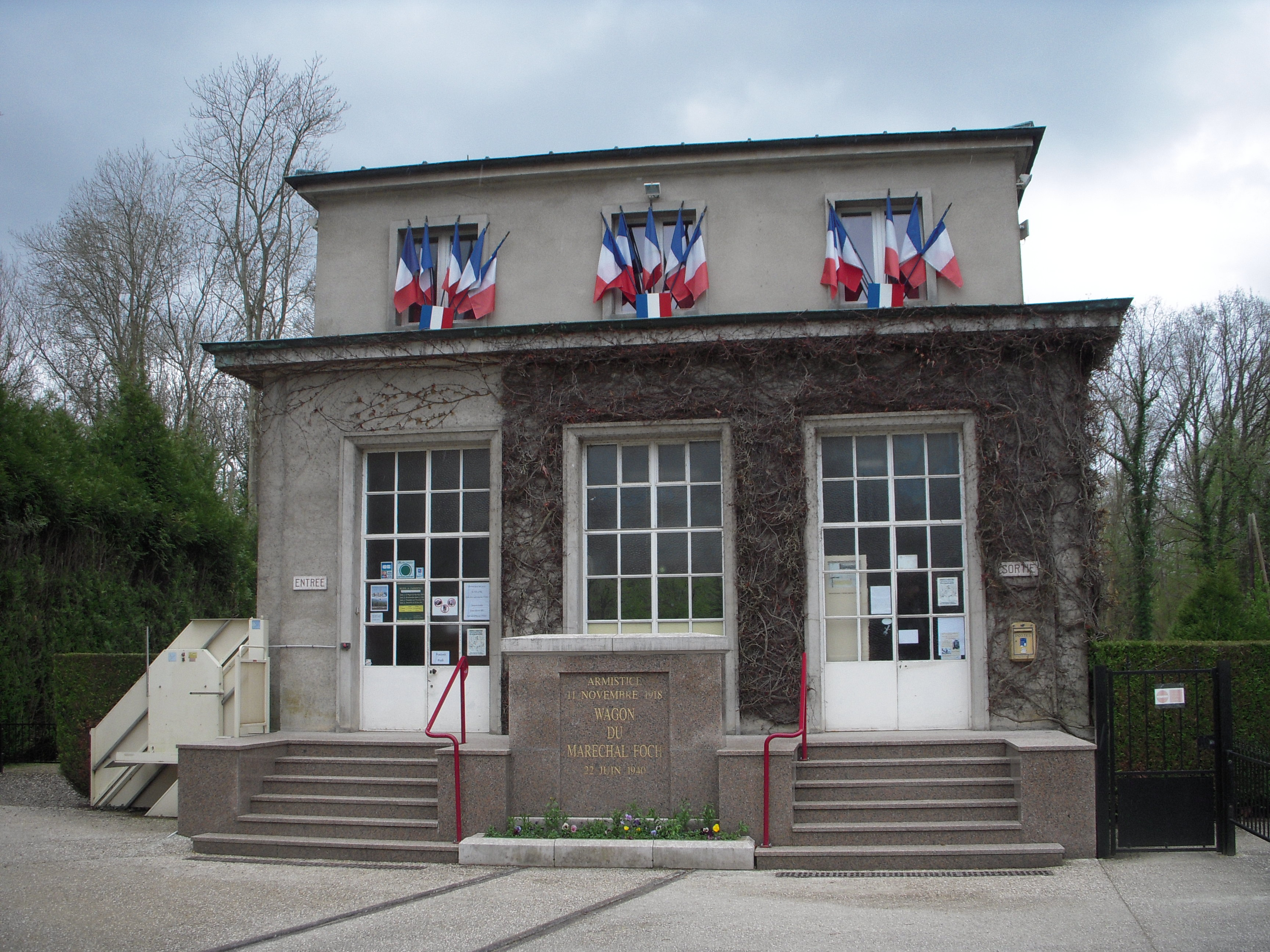 The building with the railway-wagon from the armistice in 1918 and 1940. 22. april 2012.